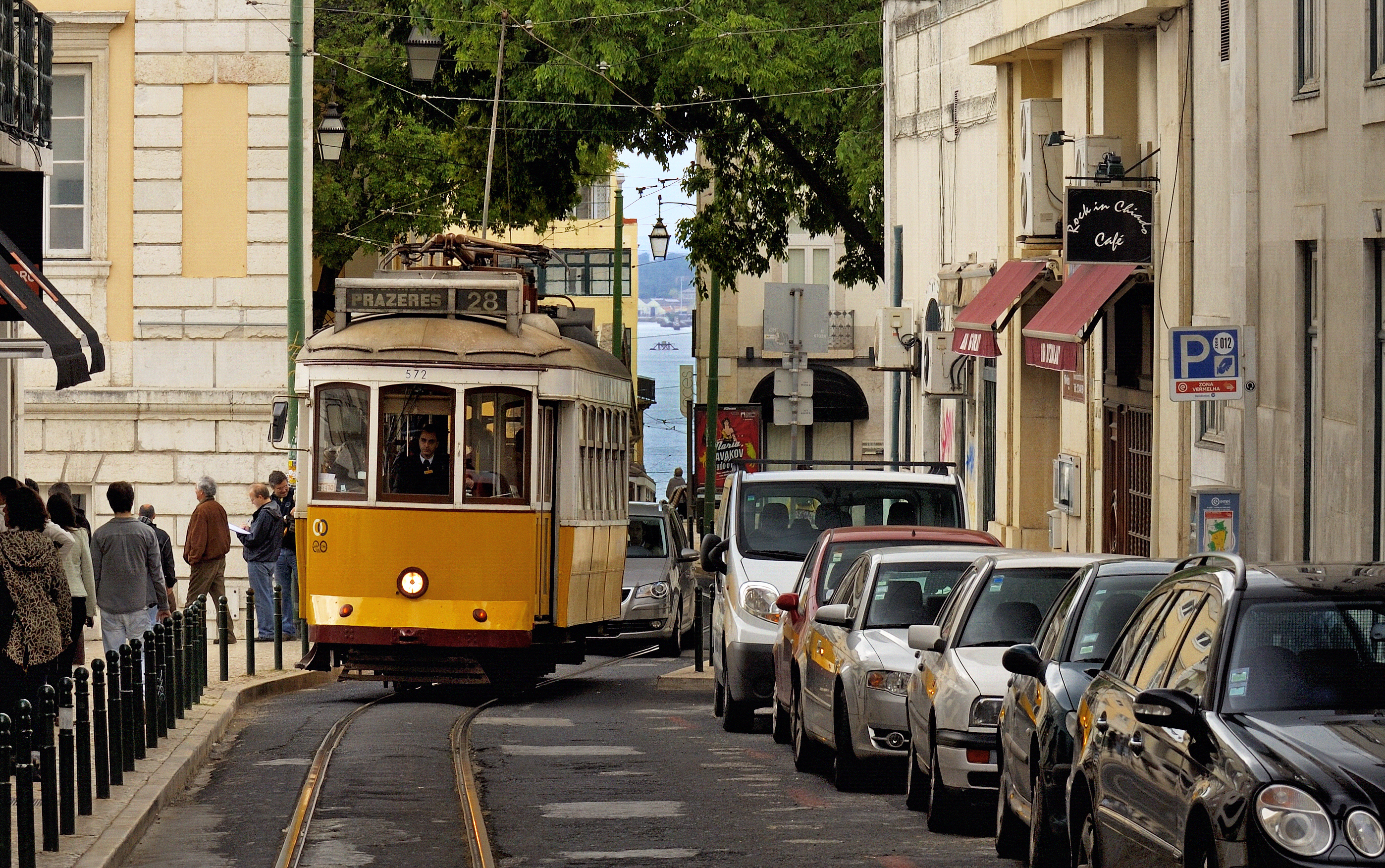 Tram 28 in Lisbon, Portuguese